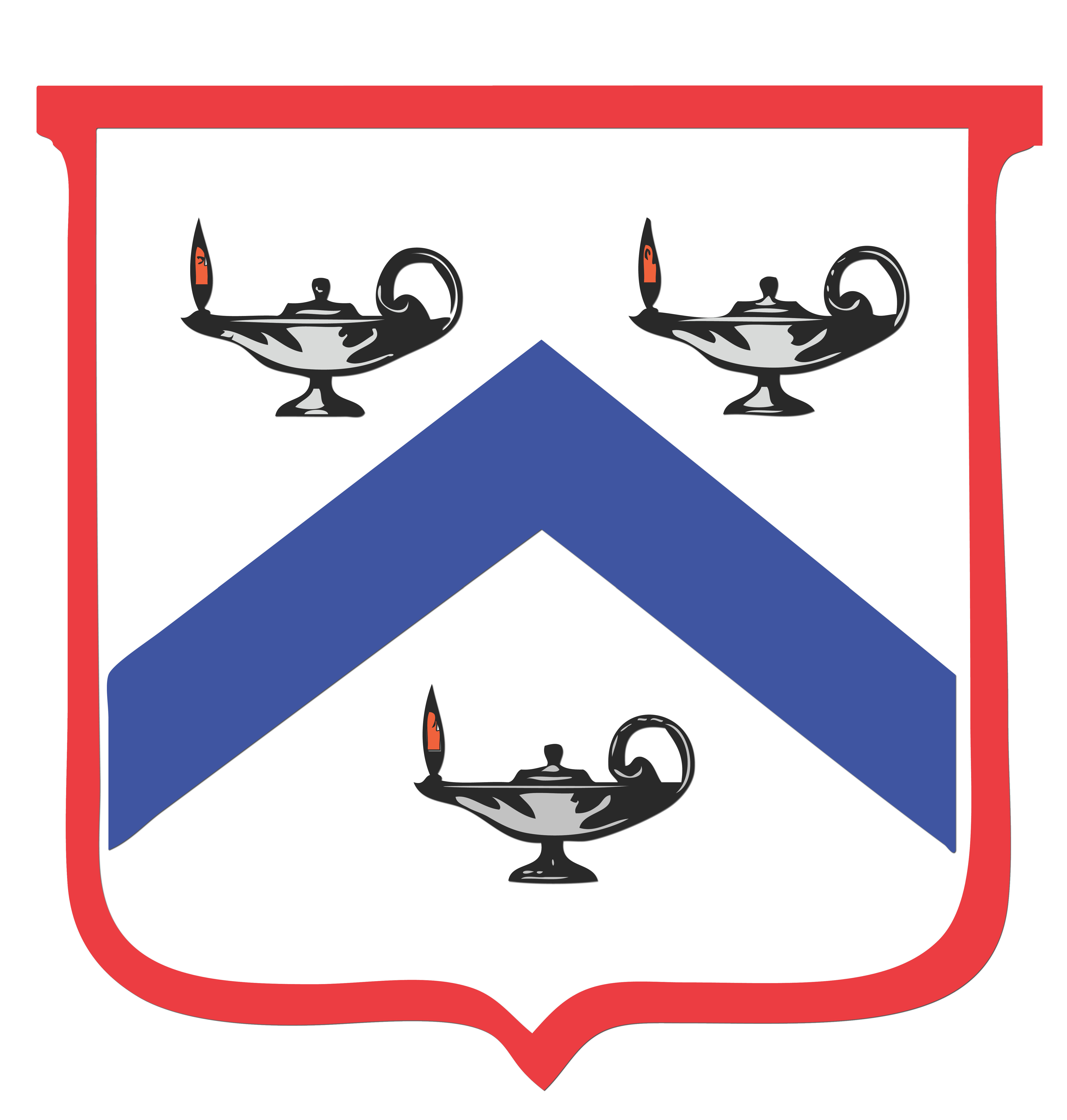 U.S. Army Combined Arms Center Shield